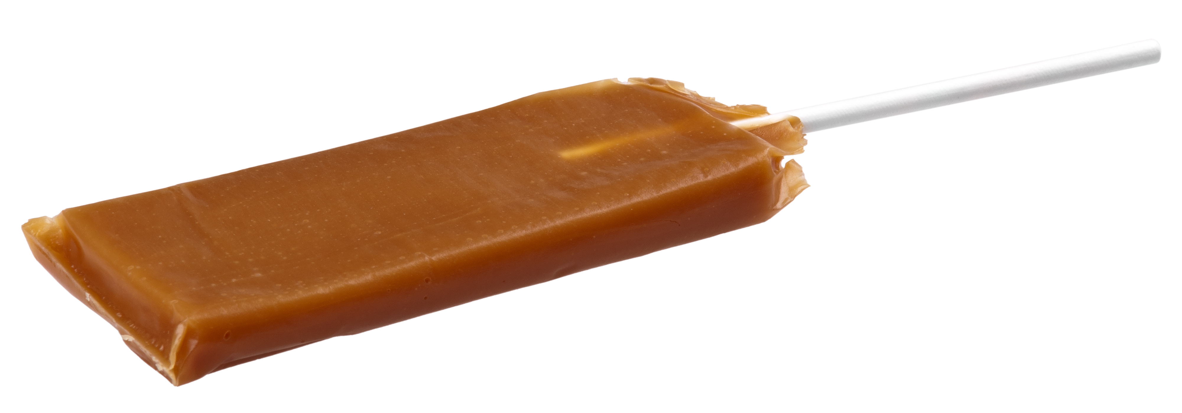 An unwrapped Sugar Daddy candy. The harder to find, regular-sized version.